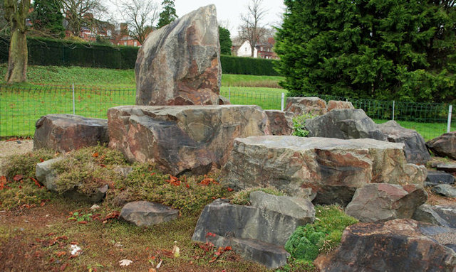 Court tomb, Botanic Gardens, Belfast I’m not certain but I think this is the Ballintaggart court tomb which used to be behind the Ulster Museum (before the recently-completed extensive renovation) close to the Tropical Ravine. If so then it came from Co Armagh from whence it was removed when a nearby quarry expanded.